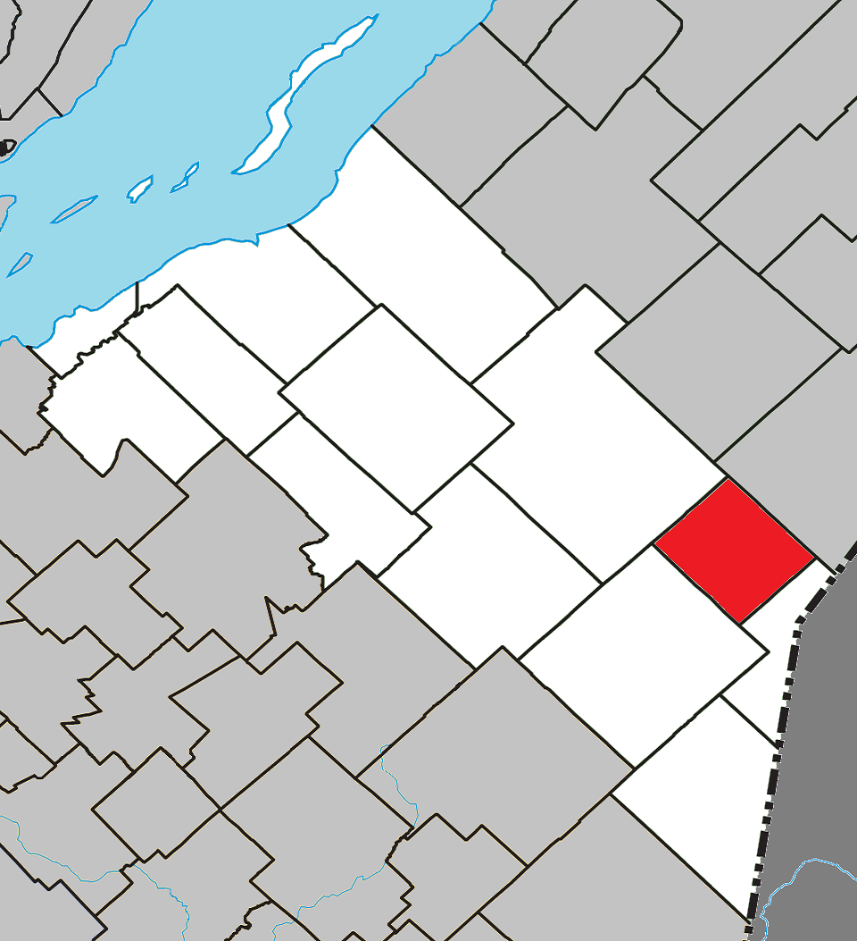 Location of Sainte-Lucie-de-Beauregard, Quebec within Montmagny Regional County Municipality.